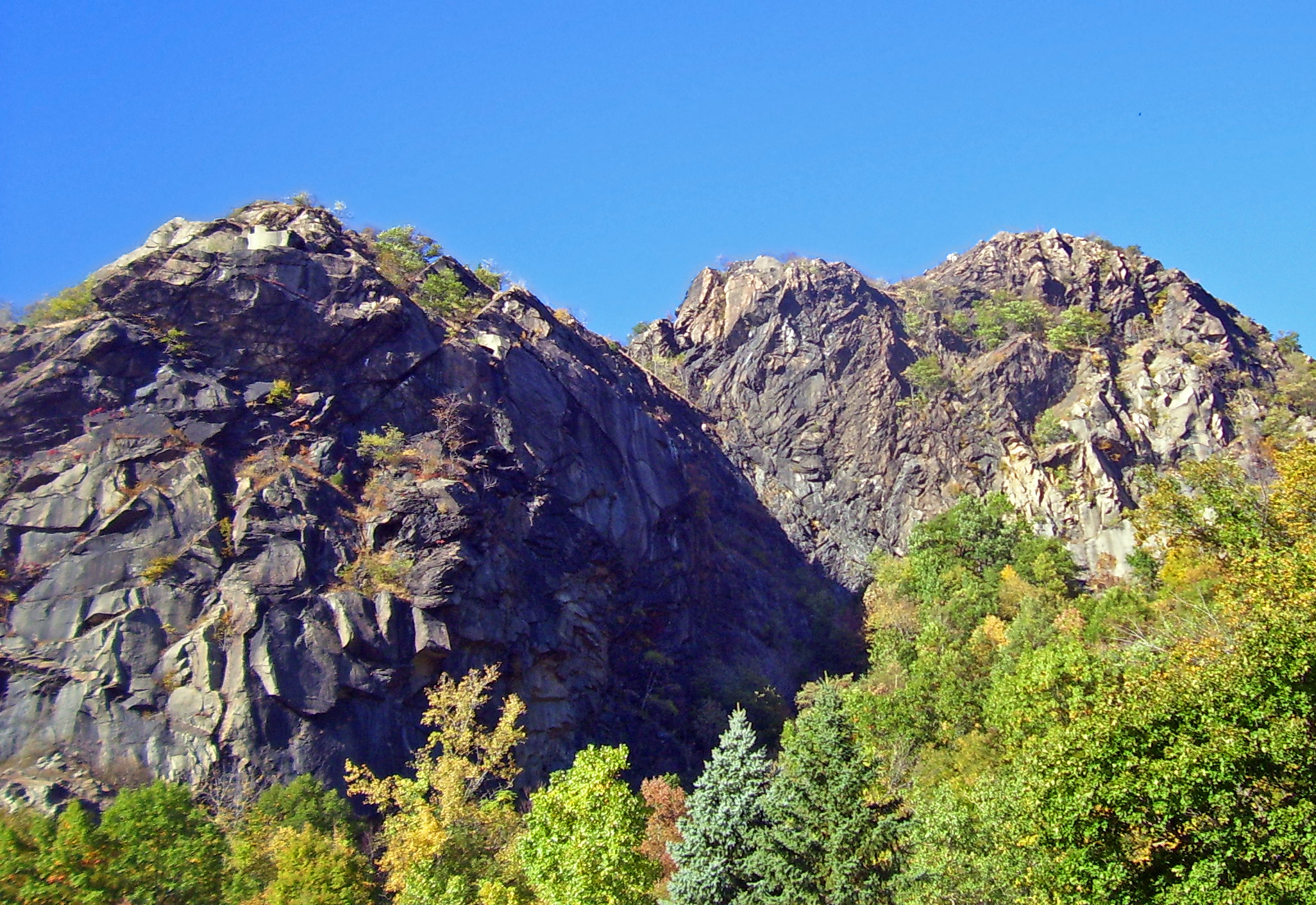 Former quarries on Breakneck Ridge in Hudson Highlands of New York, USA, seen from NY 9D